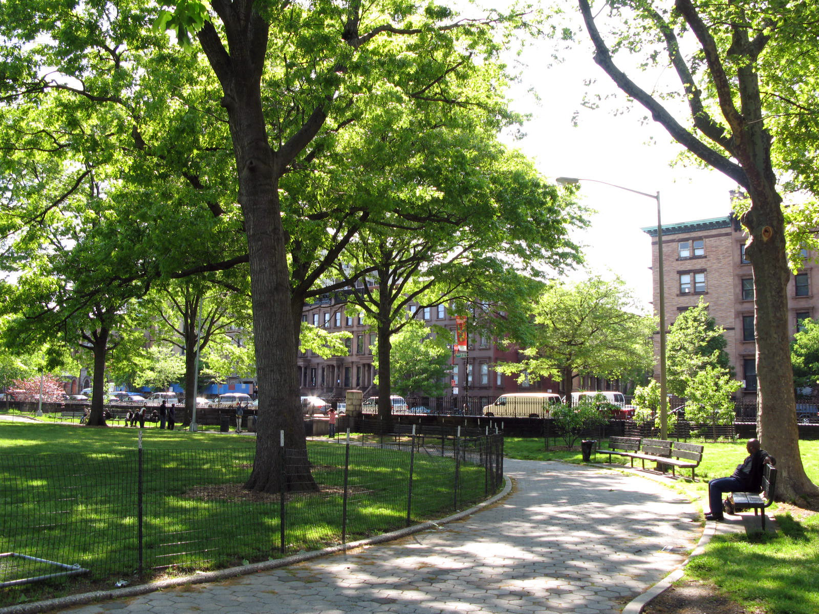 Marcus Garvey Memorial Park, Harlem, New York City